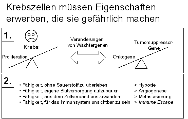 Picture shows properties of cancer cells, which they need to aquire